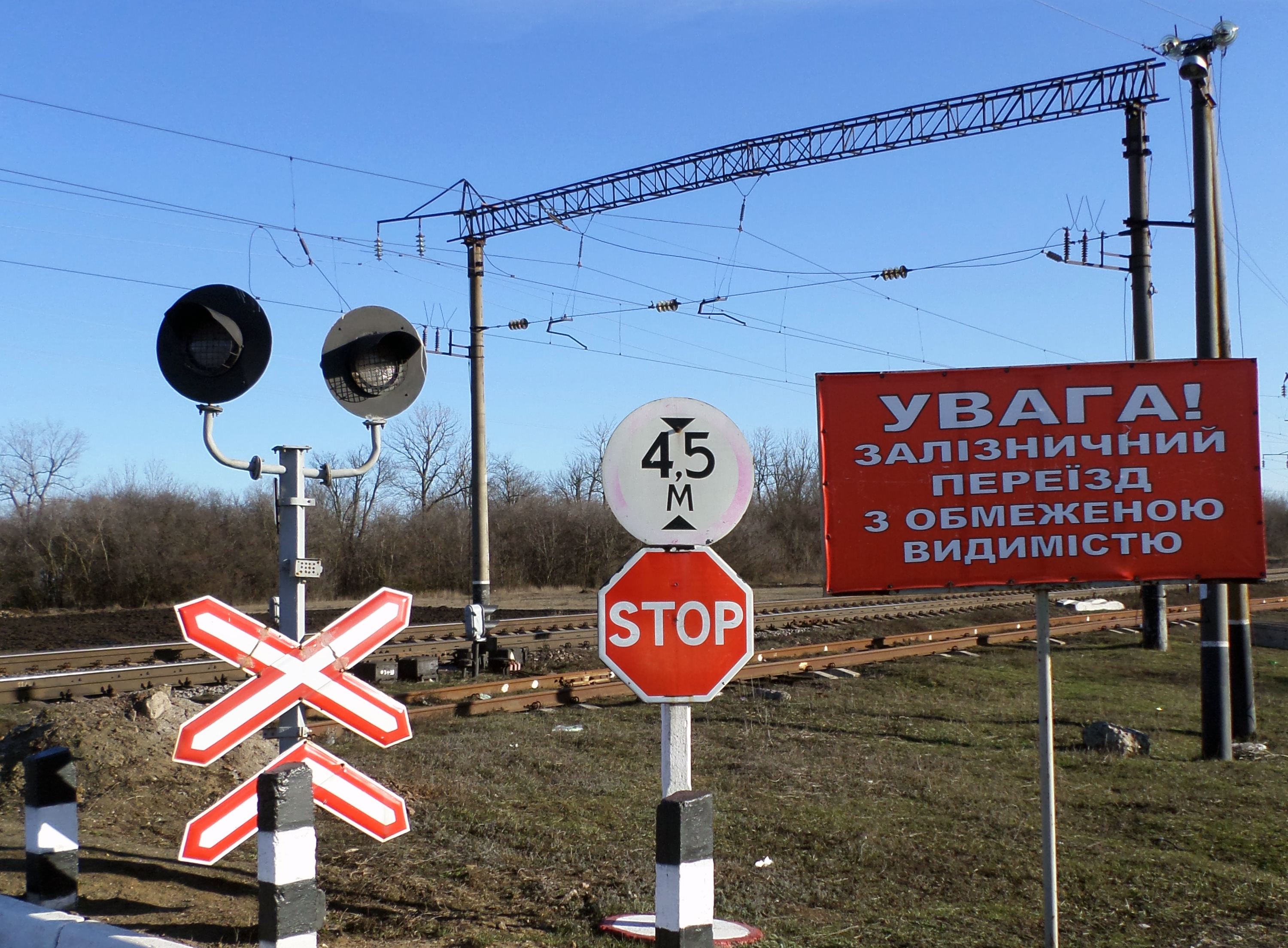 Source = Own work | Author = Eugene Zvarich